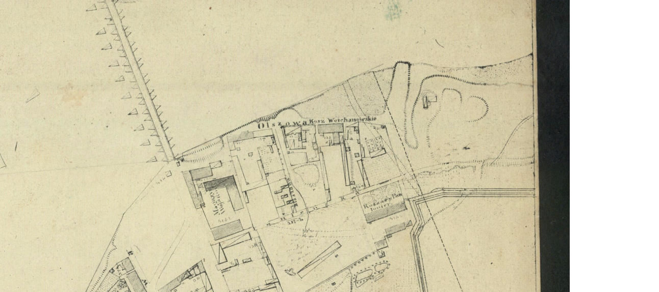 Olszowa Street on the plan of the town of Warsaw, 1859